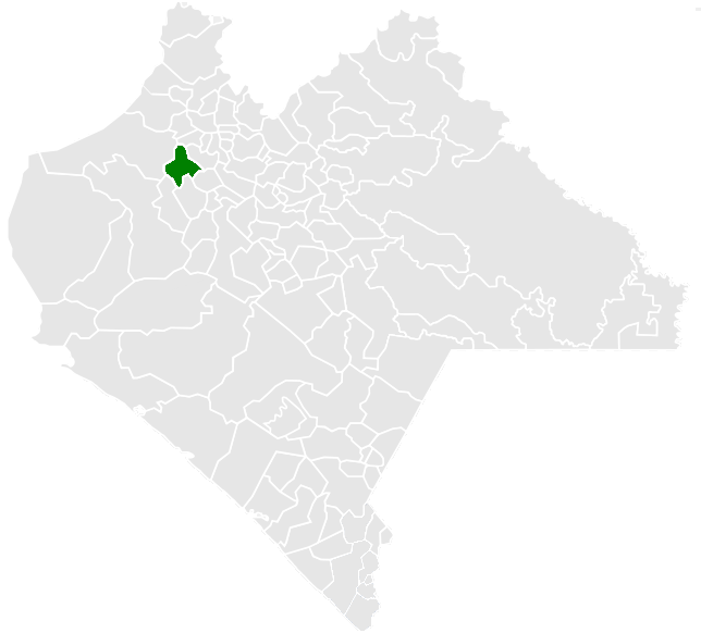 Map of the Municipalty of Copainalá in the State of Chiapas, México.